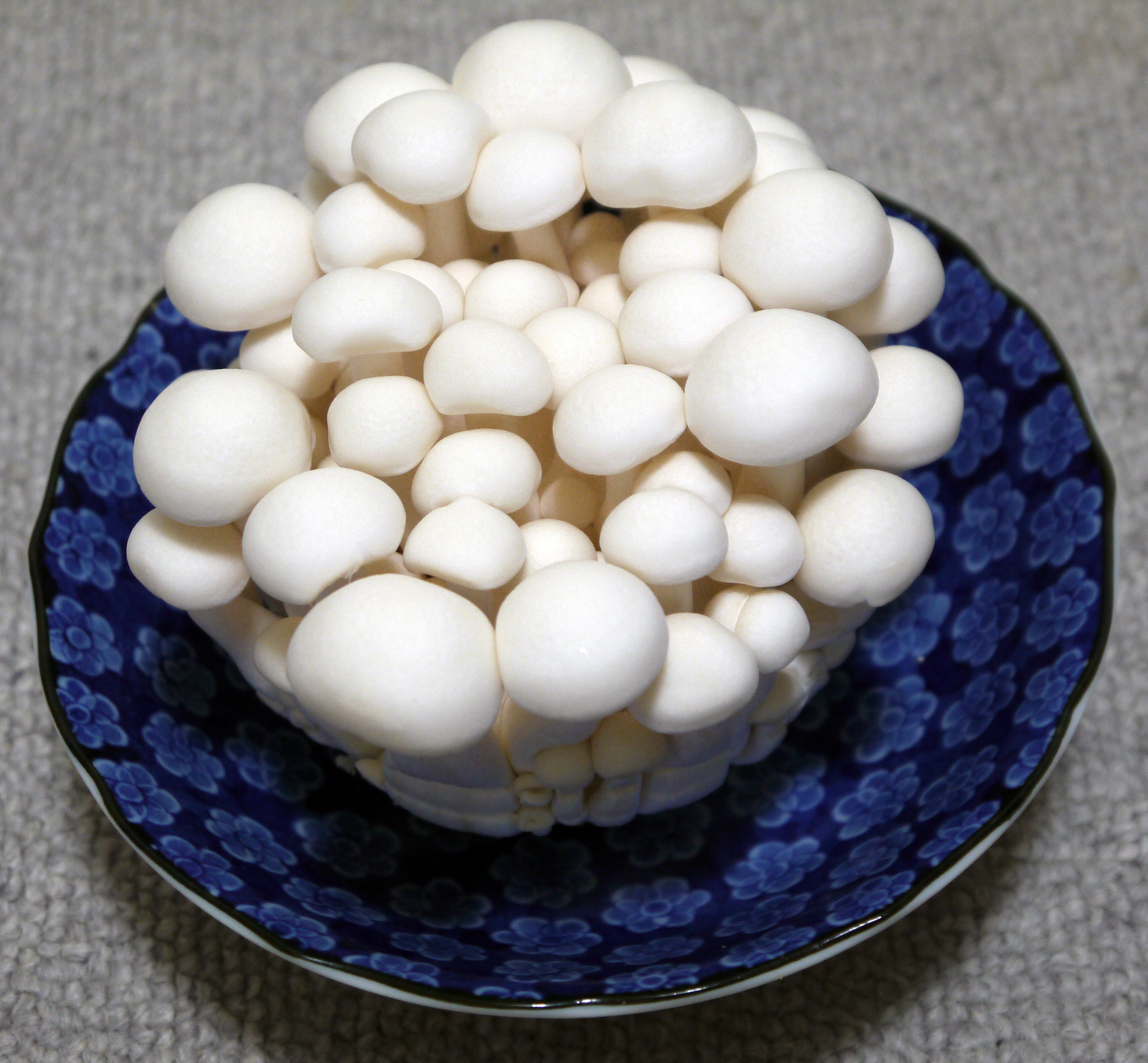 Japanese Hokto Bunapie